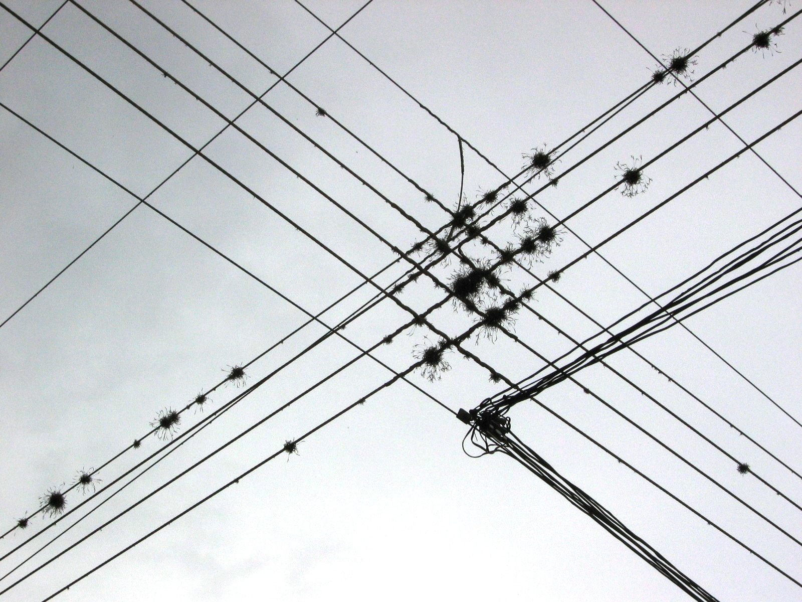 Author: Augusto Starita